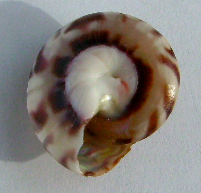 Zethalia zelandica (Hombron & Jacquinot, 1855) (synonym: Umbonium zelandica )(underside) from Whangarei Heads, New Zealand. This work has been released into the public domain by its author, Graham Bould. This applies worldwide. In some countries this may not be legally possible; if so: Graham Bould grants anyone the right to use this work for any purpose, without any conditions, unless such conditions are required by law.